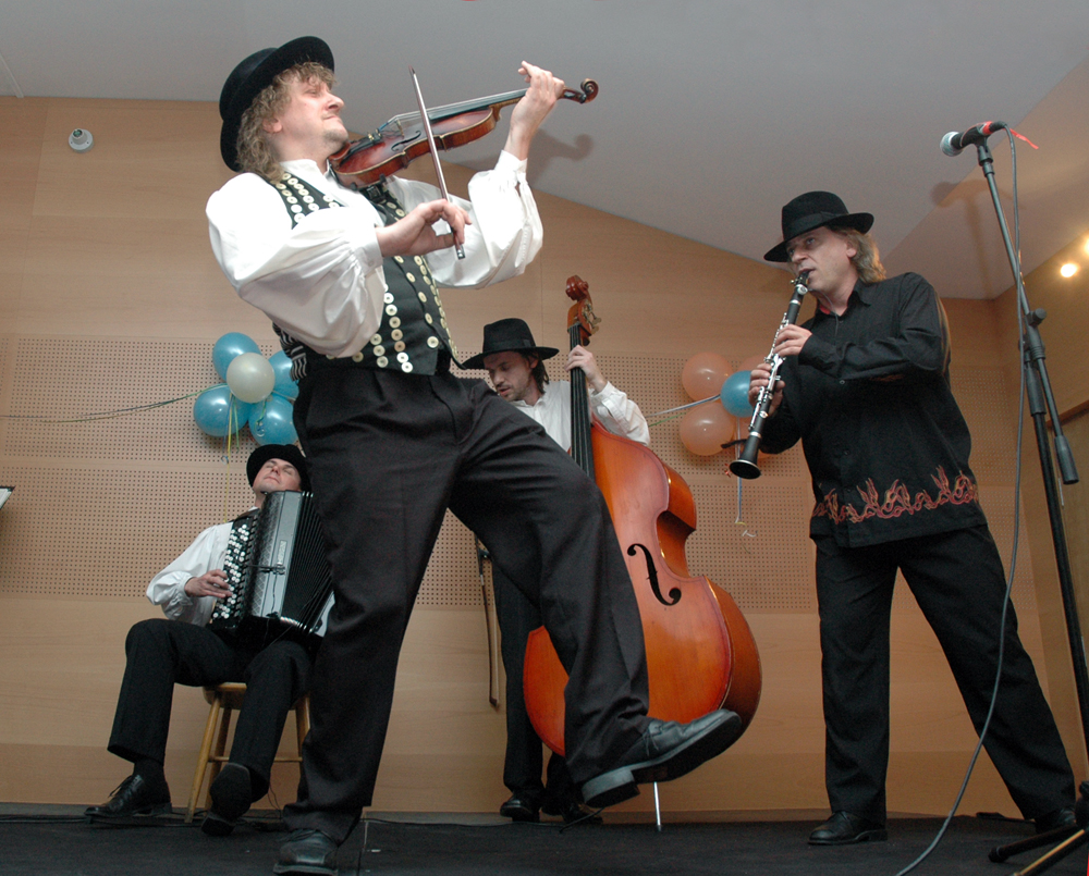 Klezmer musical group Lubliner Klezmorim performing in Warszawa during Purim party in The Jewish Theatre.